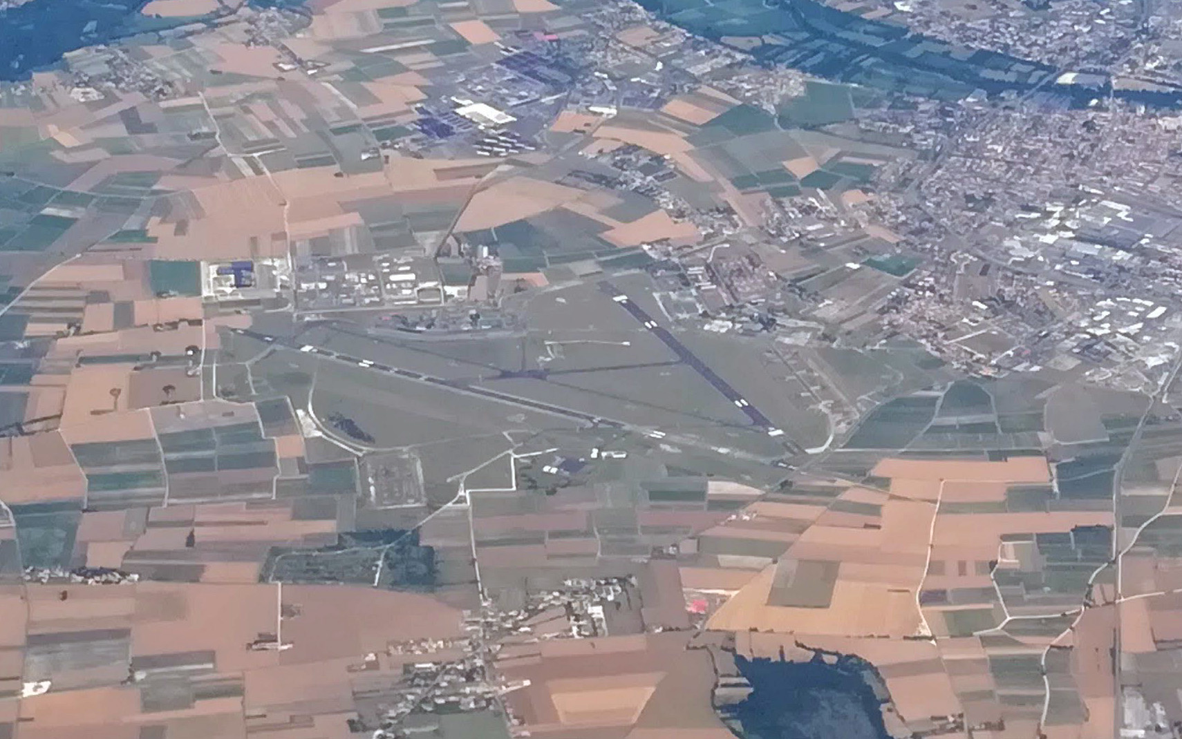 CNG AIRPORT AFB COGNAC FROM A319 F-GPME